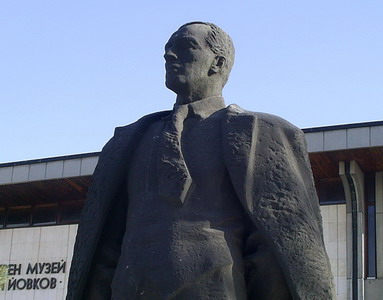 Monument of Bulgarian writer Yordan Yovkov, Dobrich